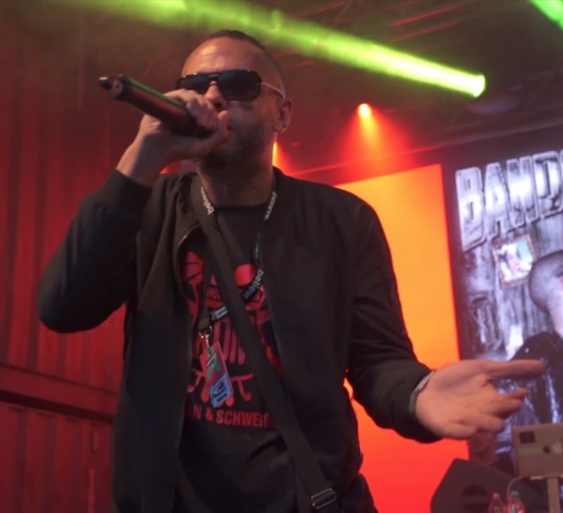 German Rapper GPC on the Splash 2017 Festival